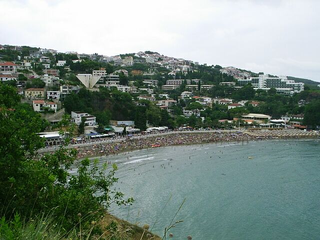 Town of Ulcinj at the very south of Montenegro